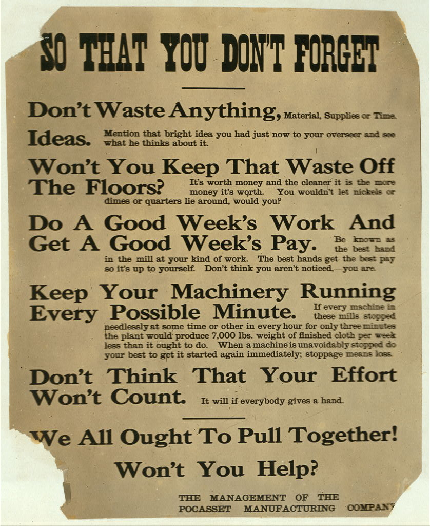 Employees' poster, Pocasset Mill. Location: Fall River, Massachusetts / Lewis W. Hine. Part of: Photographs from the records of the National Child Labor Committee (U.S.)